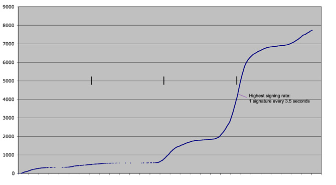 Mark Sidall & R. Joe Brandon, source URL